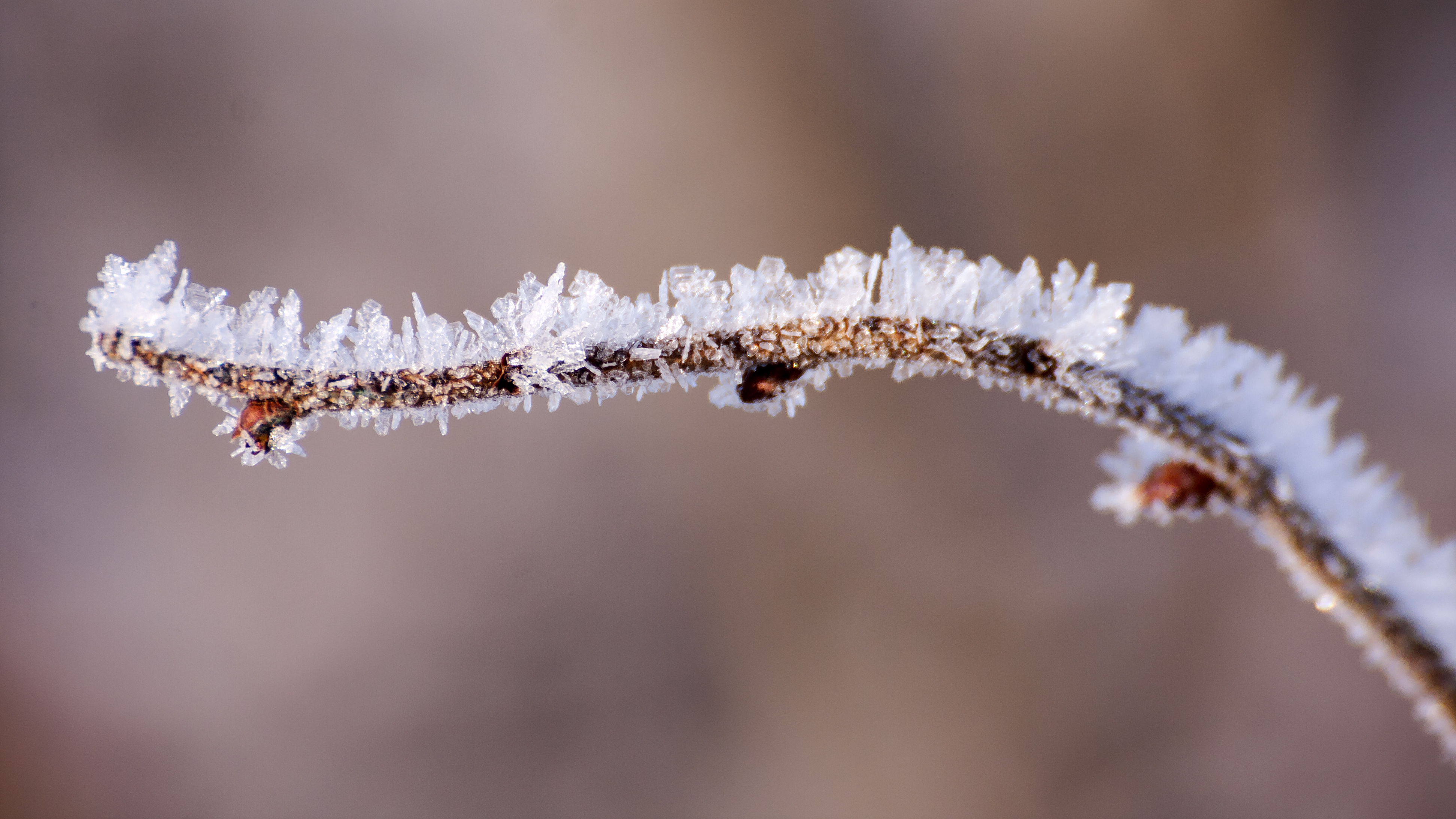 Twig with rime. Galthult, Hässleholm Municipality, January 2013.